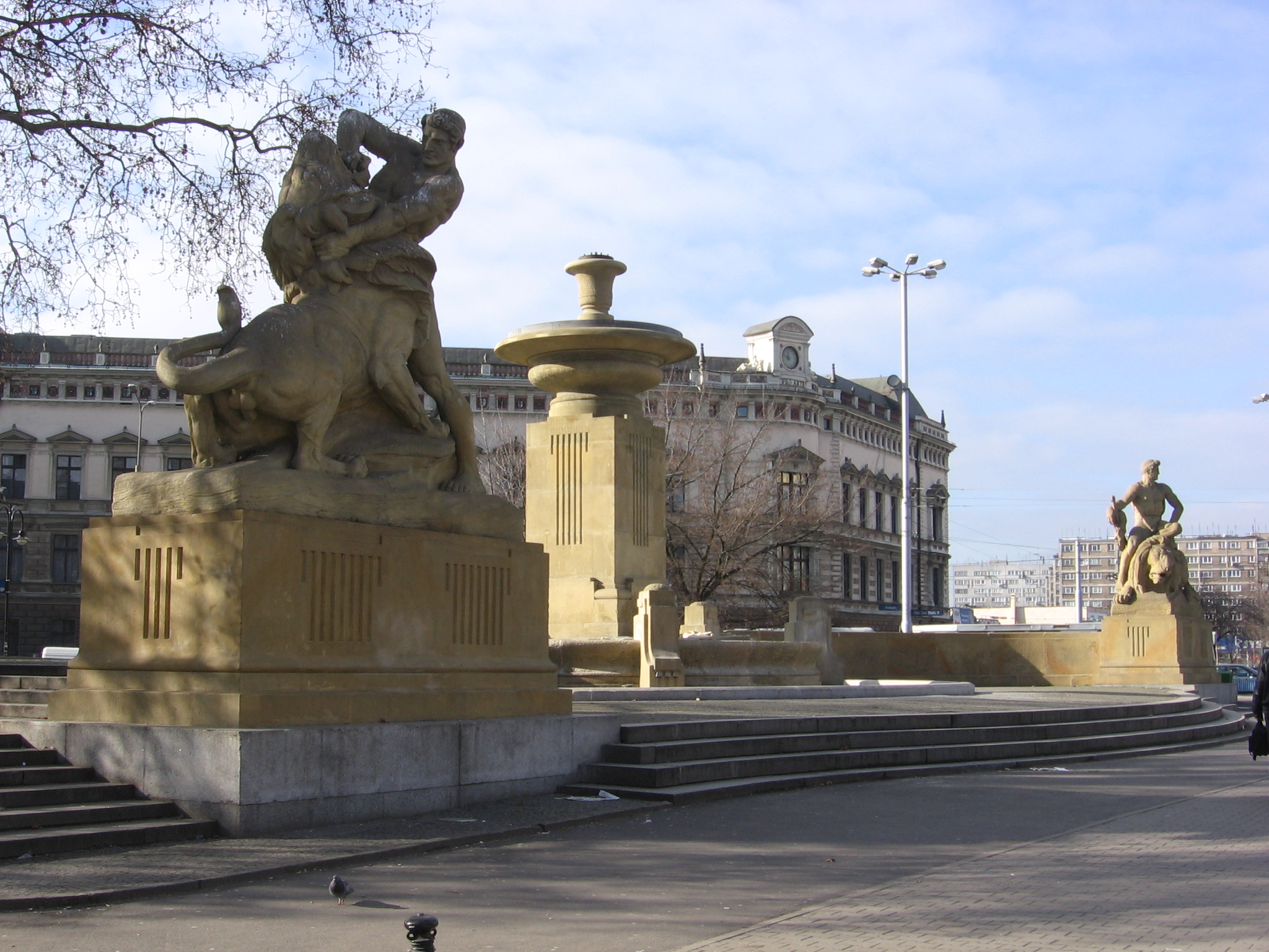 the fountain of on the Johann-Paul II Square, Wrocław, Poland